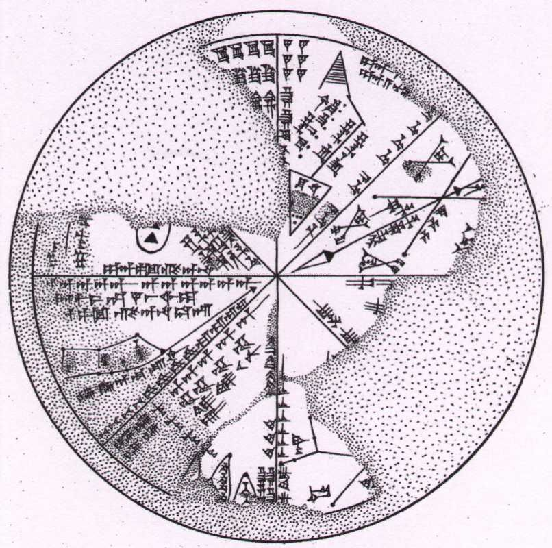 Planisphere of Nineveh